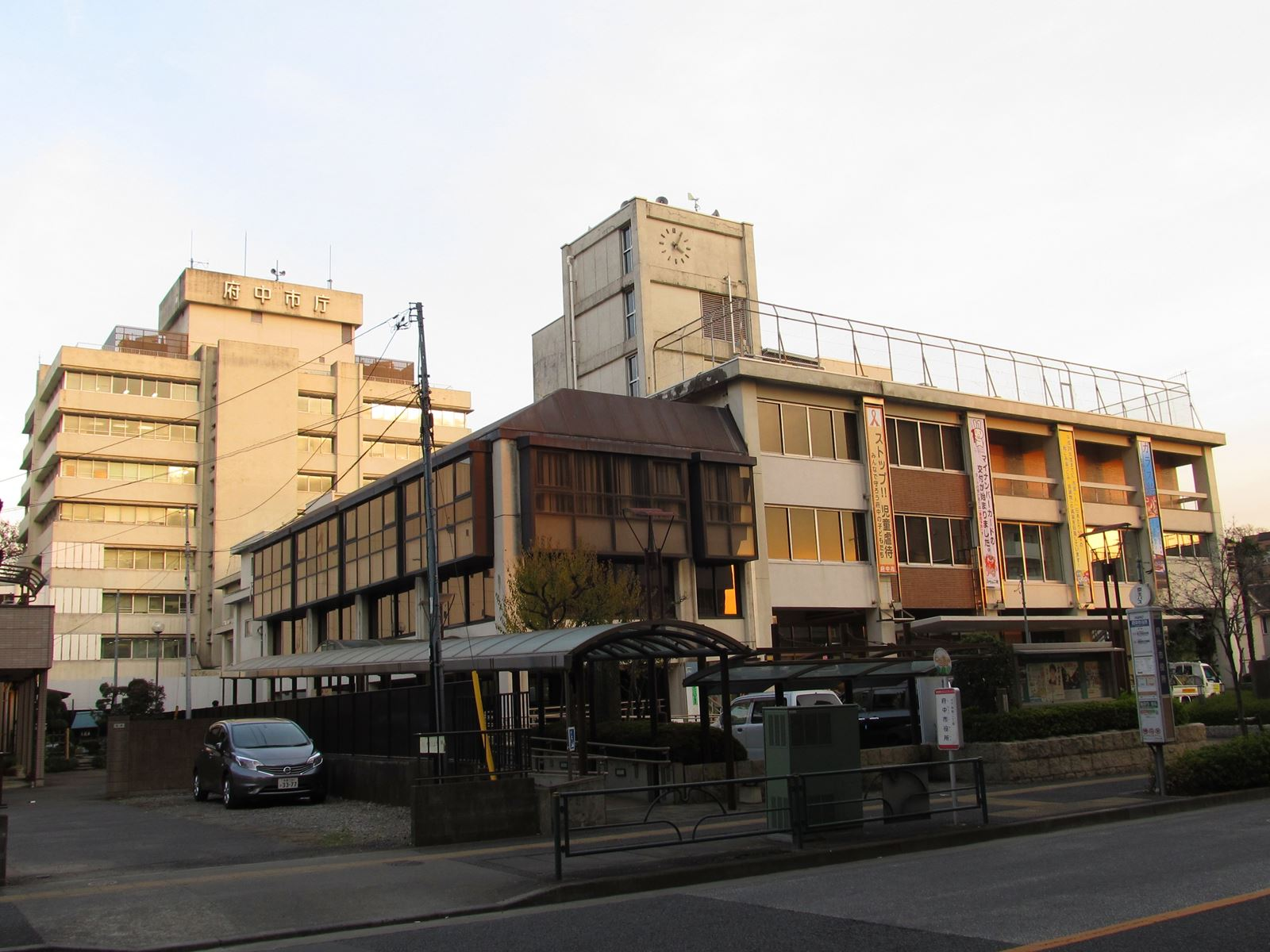 Fuchu City Hall